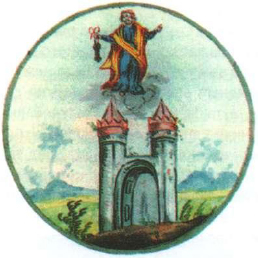 Coat of Arms of Barysaŭ (1792)